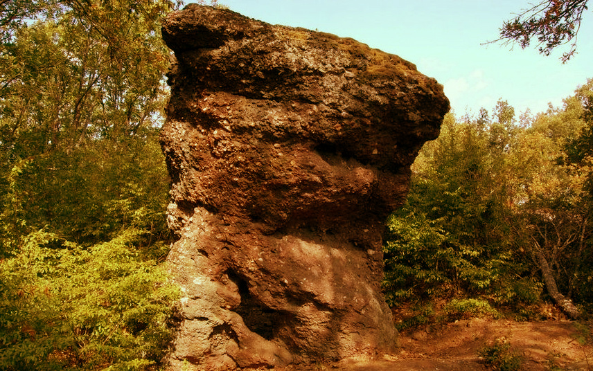 TheSTone bg 2